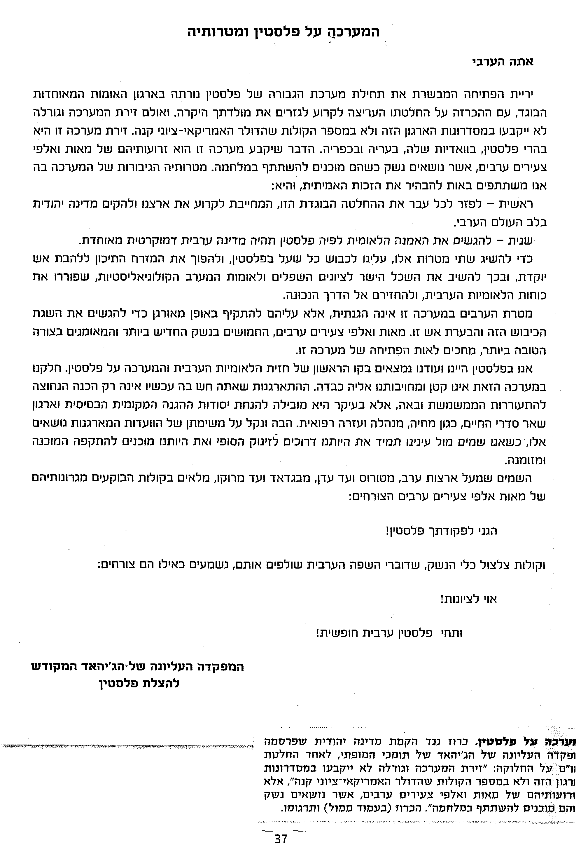 A leaflet, distributed after the U.N partition resolution, by the Mufti High Command supporters, which calls the Arabs to attack and conquer all of Palestine, to burn all the middle east and cancel the U.N partition resolution